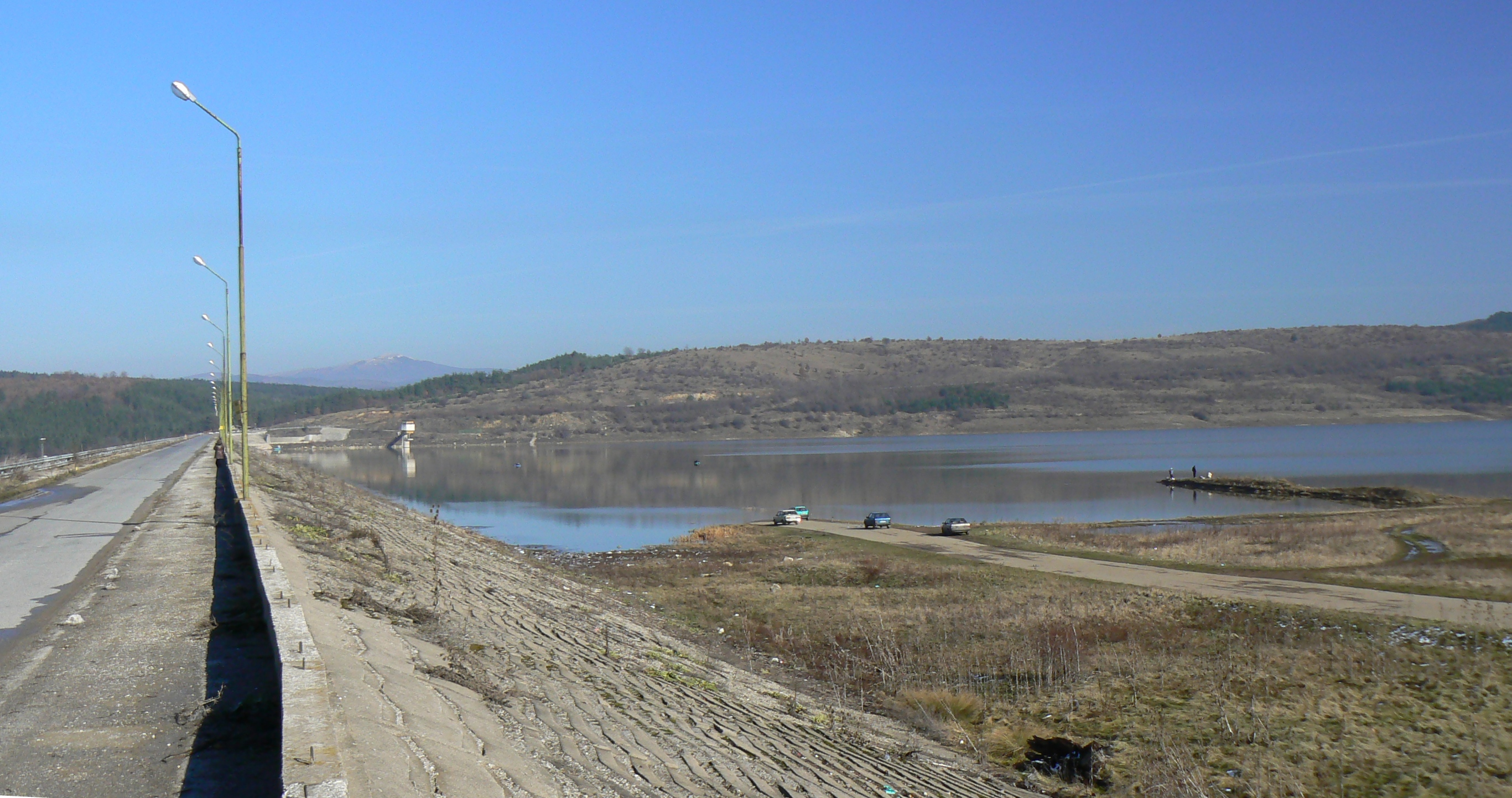 Ognyanovo Dam, Bulgaria